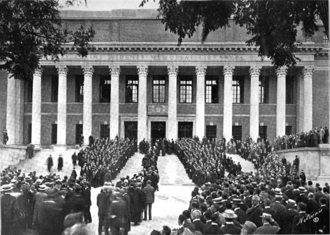 Dedication of the Harry Elkins Widener Memorial Library, Harvard University.